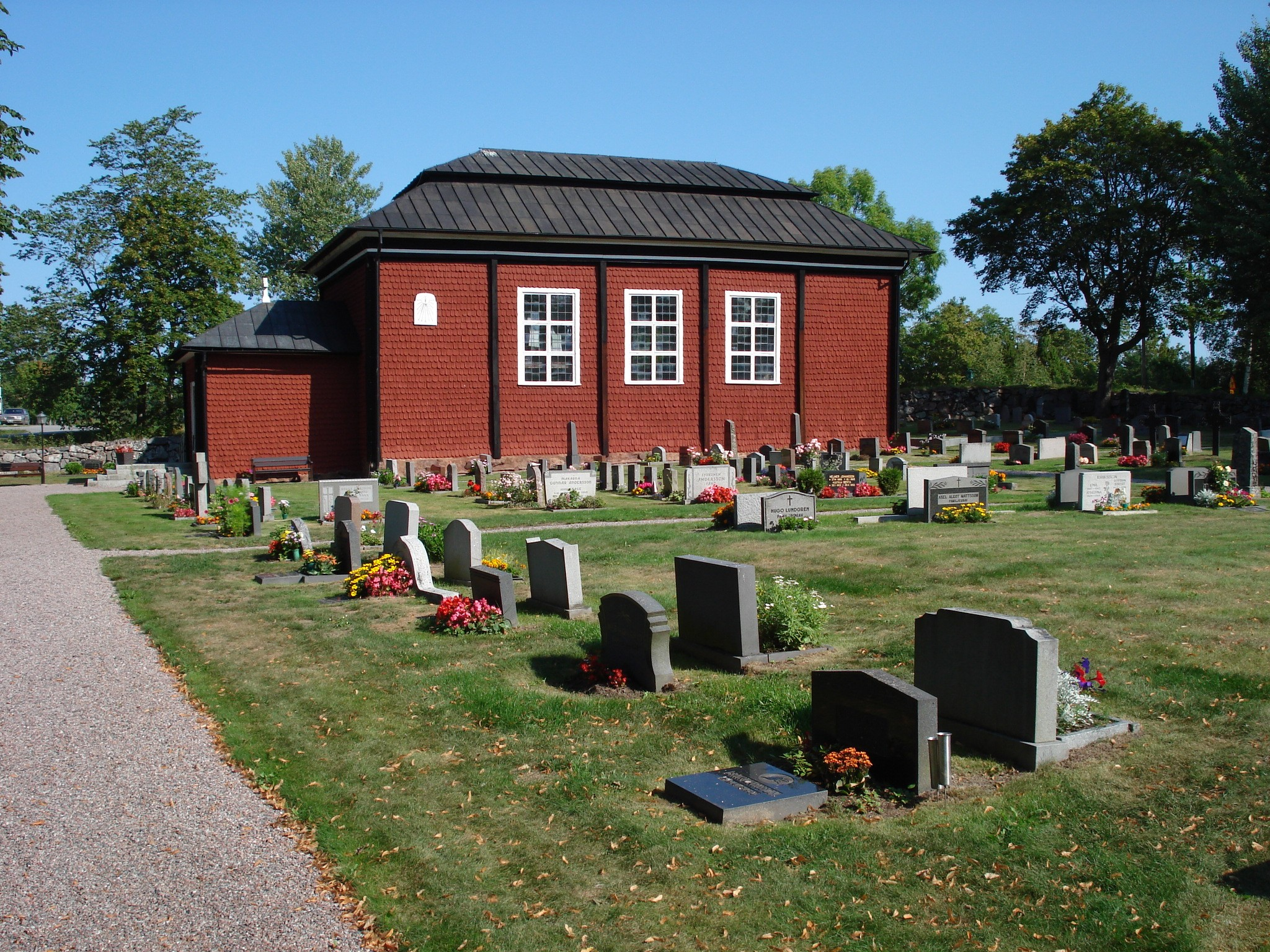 The Church at Gräsö Island